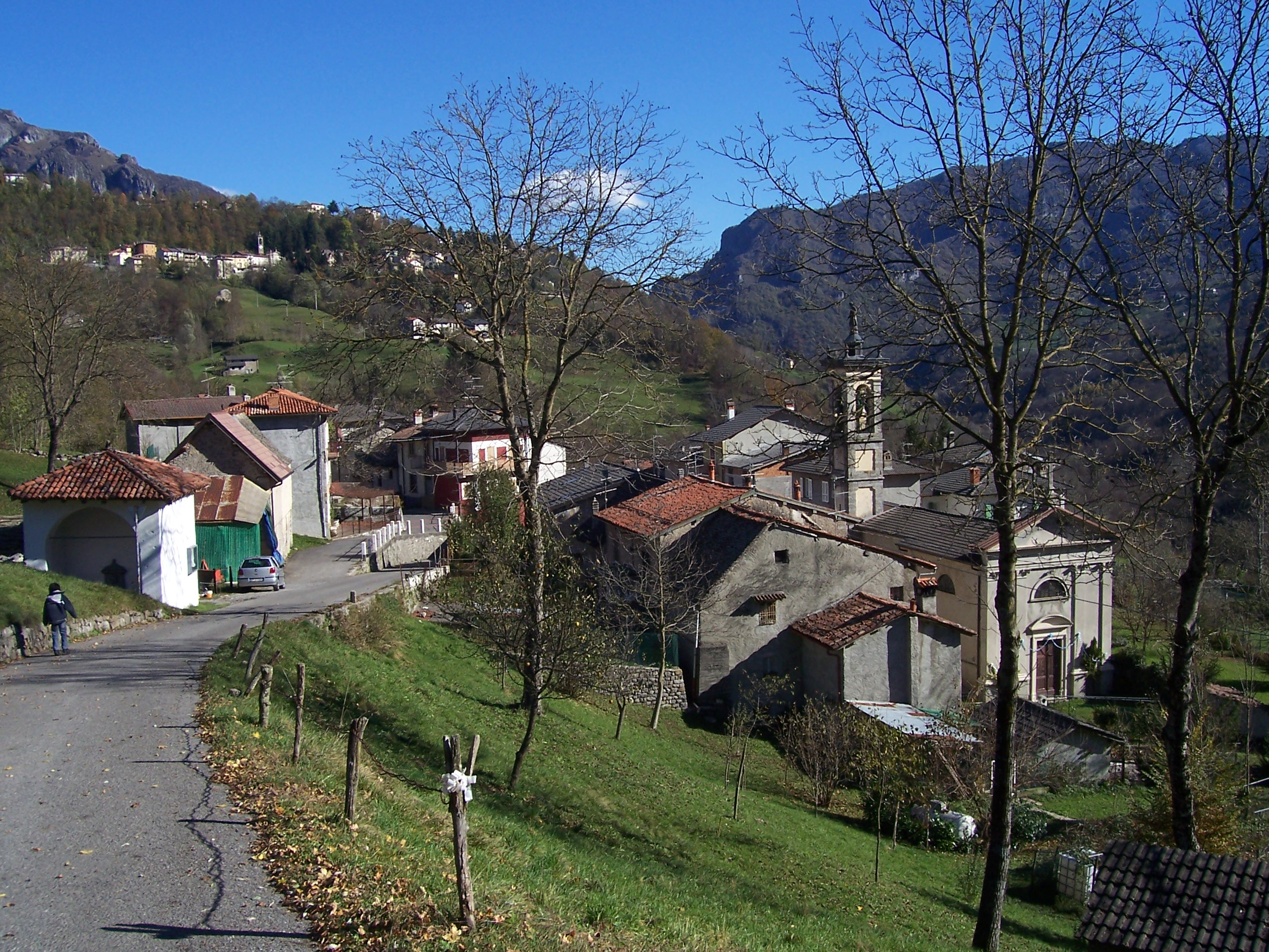 Lavina (Vedeseta), Lombardy, Italy